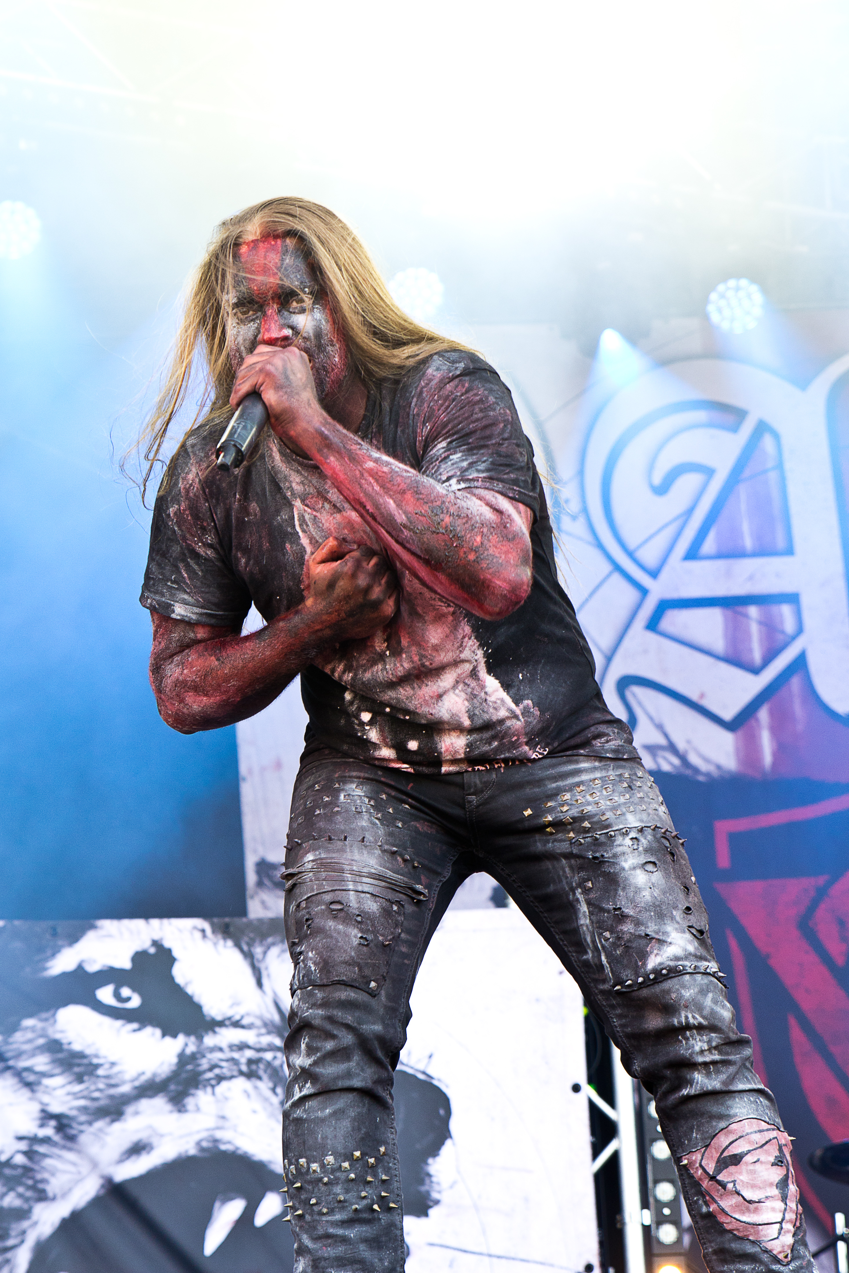 The German pagan metal band Varg at the Rockharz Open Air 2015 in Ballenstedt/Germany.